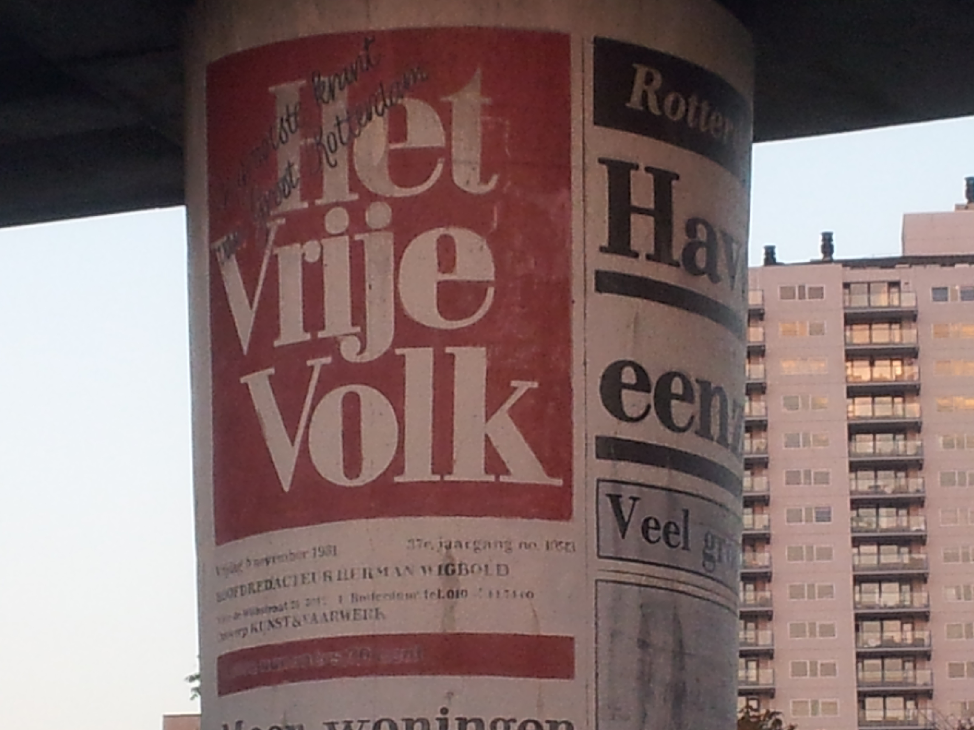 Front page of Het Vrije Volk of 6 November 1981 on a metro pillar near Metrostation Zuidplein in Rotterdam.